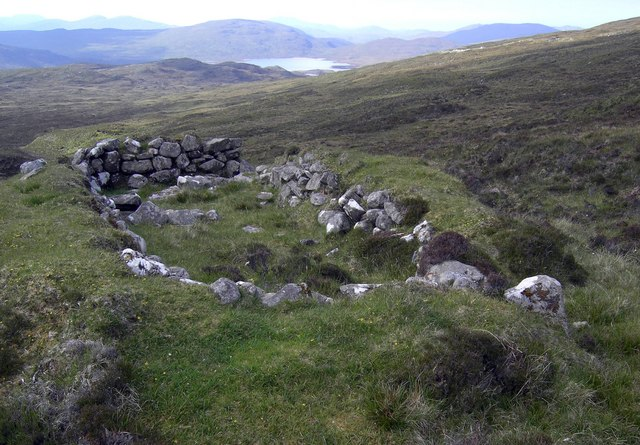 The Sheiling A shieling close to the Loch Langavat path.